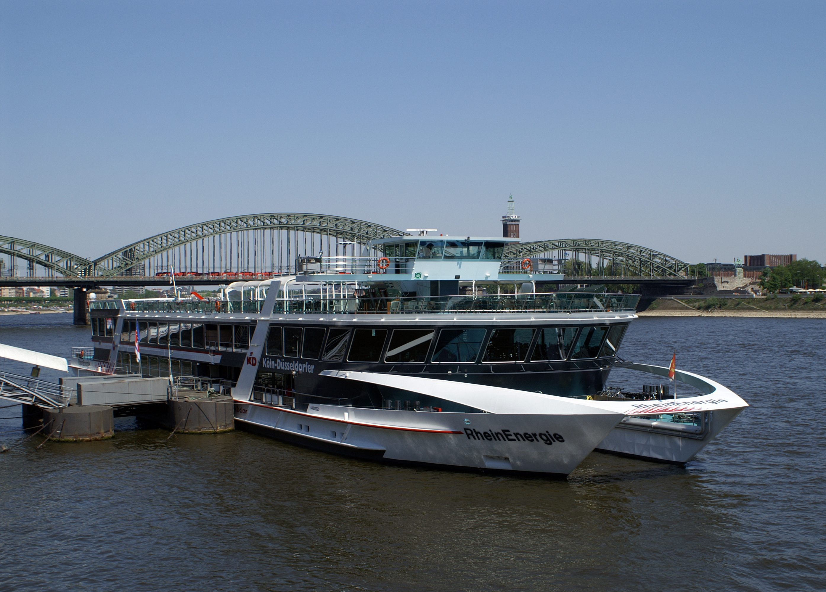 Day trip and Evenship RheinEnergie in cologne.